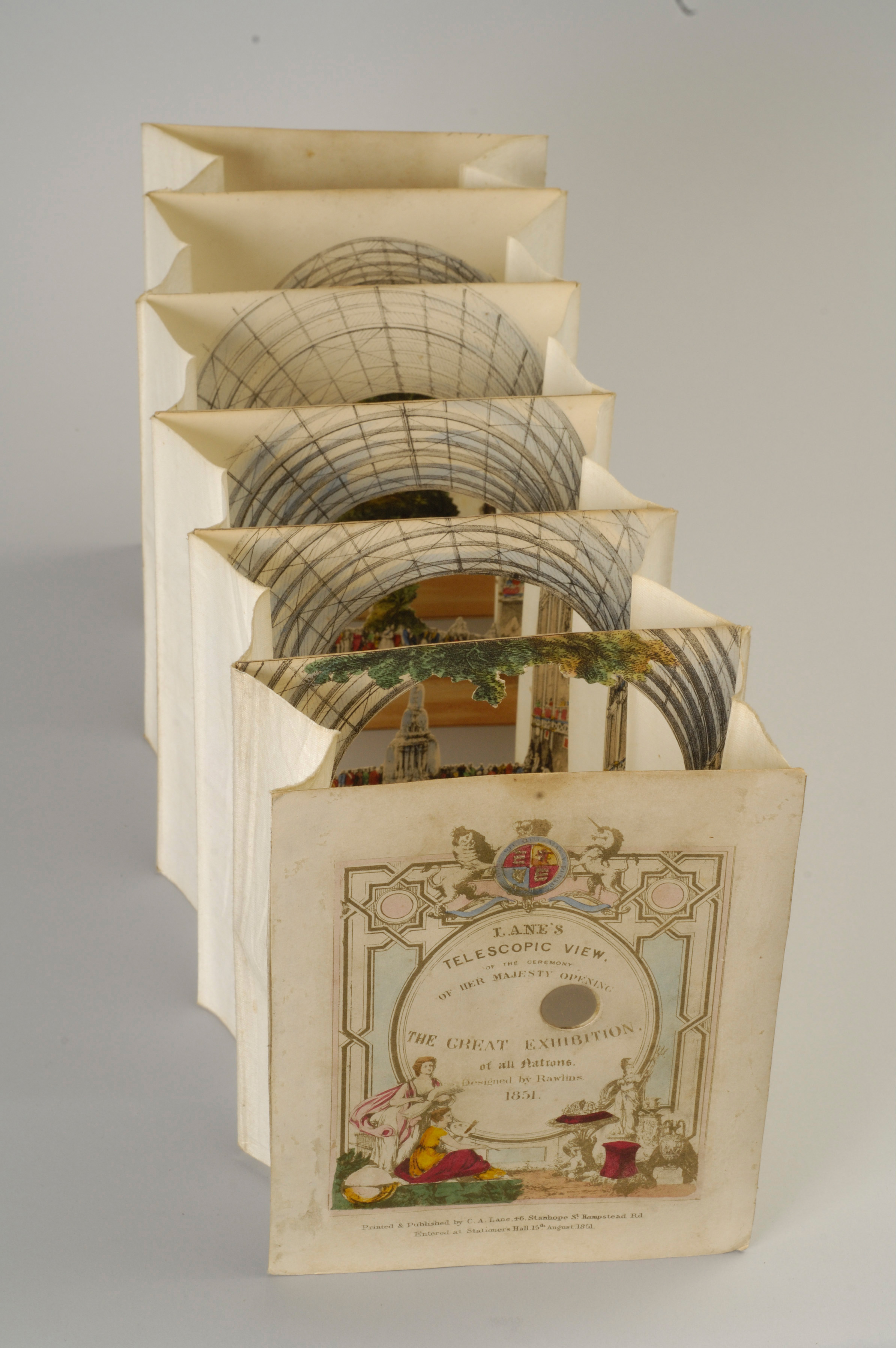 Lane's telescopic view, of the ceremony of Her Majesty opening the Great Exhibition, of All Nations Location: The George Peabody Library, The Sheridan Libraries, The Johns Hopkins University Call No.: 606 L248 1851 From the JHU Libraries Catalog: This 'Telescopic View' is made of printed paper and card, and is supplied in a slip-in card box. When you take the view out of the box, it opens with a concertina action, and you place it on a flat surface. When you view the internal scene through the little peep hole in the cover, you see a three dimensional view of the inside of the Crystal Palace in 1851, and the grand opening by Queen Victoria.